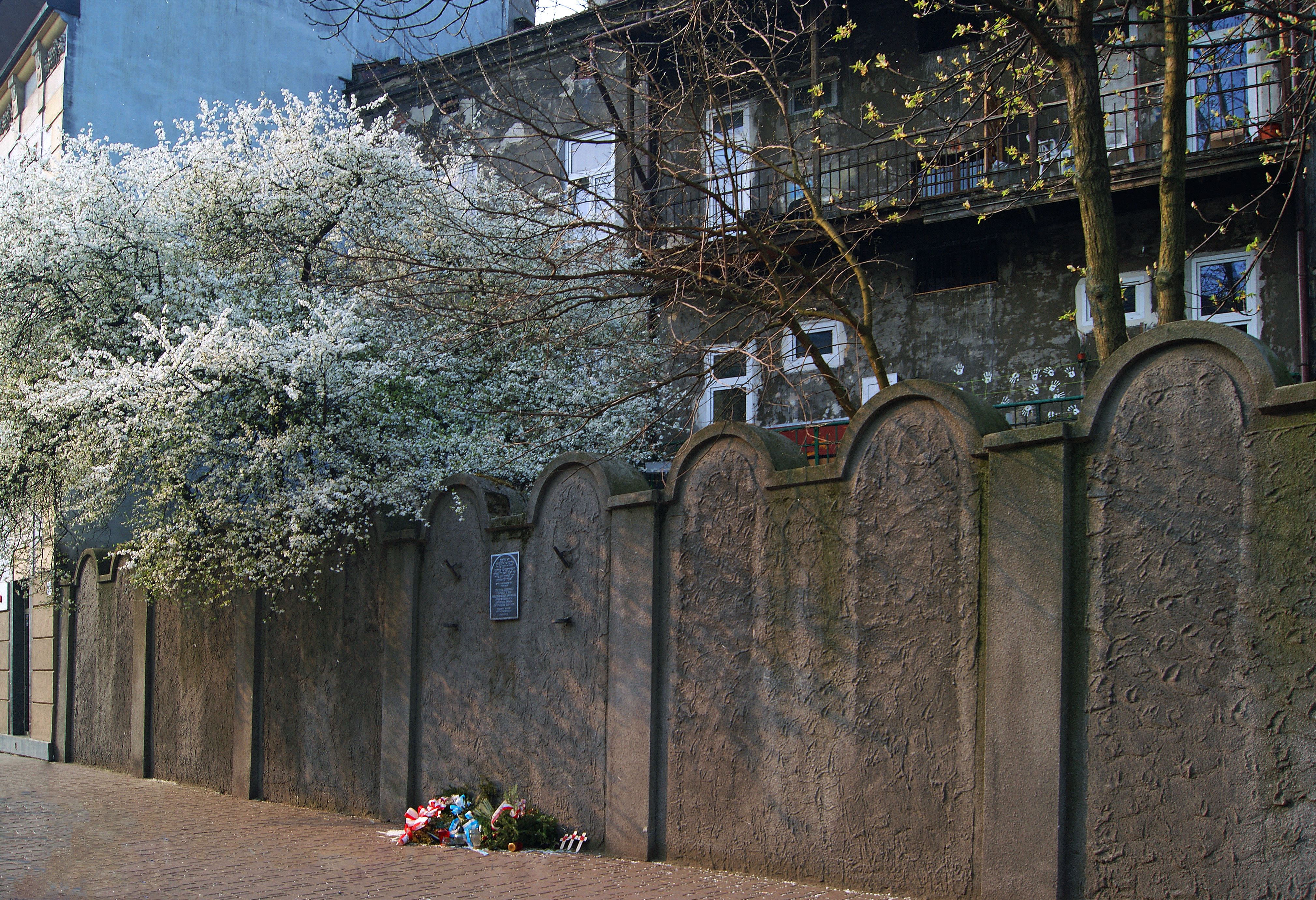 Ghetto wall (preserved segment) with a memorial plaque, 27 Lwowska street, Podgórze, Krakow, Poland